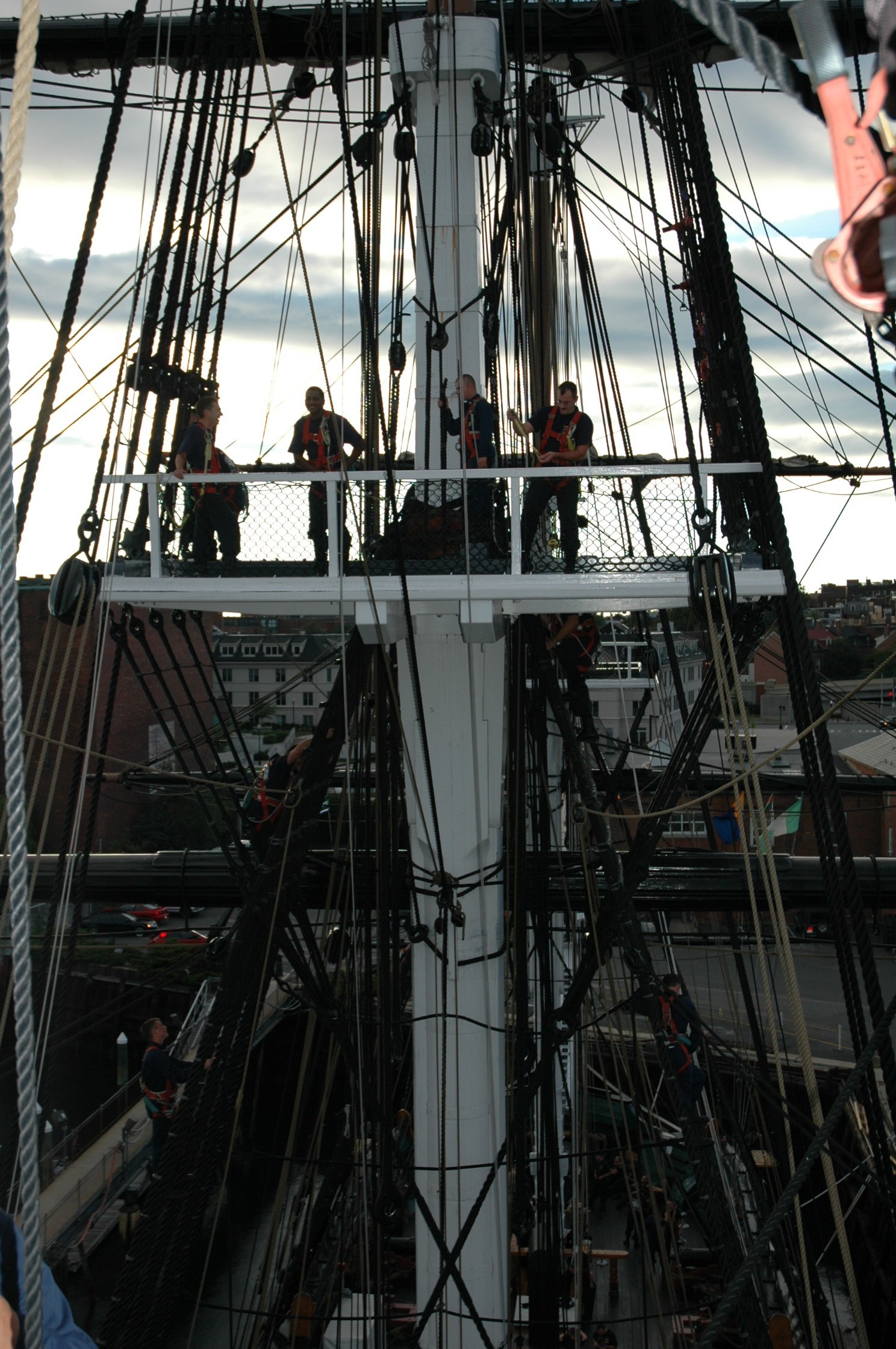 Boston, Mass. (Sept. 3, 2004) – Sailors stand on the main fighting top aboard USS Constitution during annual chief petty officer (CPO) selectee training. The crew assigned to Constitution, the oldest commissioned warship afloat in the world, takes part in CPO select training every summer, teaching the new chiefs techniques from the sailing days of the past so they can apply that knowledge in their modern careers. U.S. Navy photo by Journalist 2nd Class Matt Chabe (RELEASED)